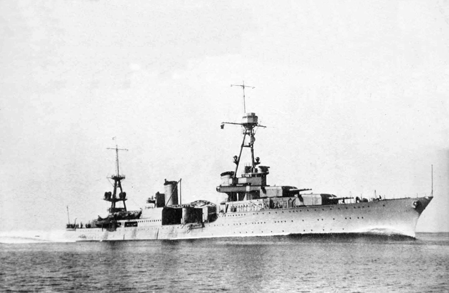 The U.S. Navy heavy cruiser USS Northampton (CA-26) 1930, probably during builder's trials.